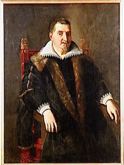 Painting of Asdrubale Mattei (d. 1638) by students of Caravaggio; patronised during his lifetime by the Matei